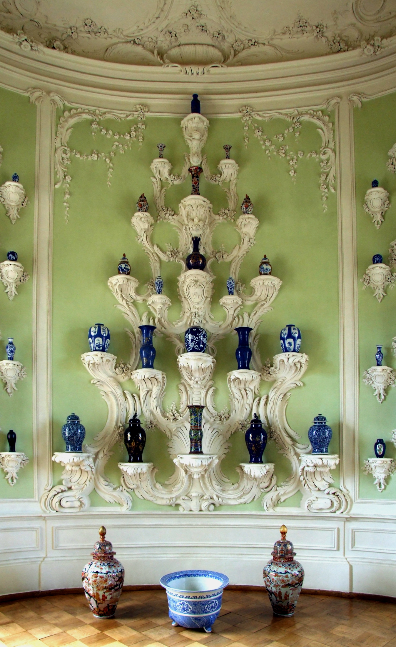 Rundāle Palace (Ruhental) - porcelain room